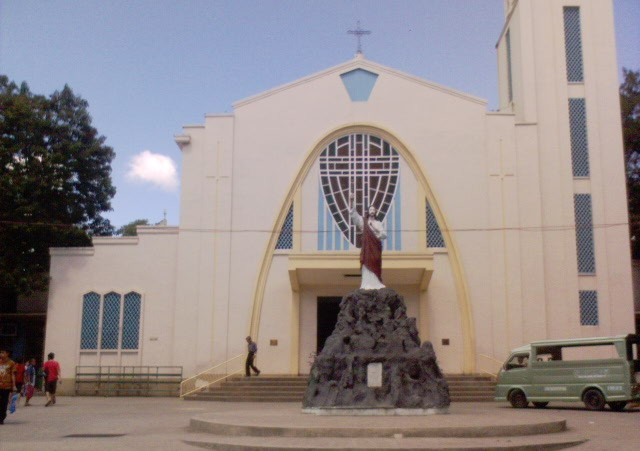 The Virgen de la Regla Parish National Shrine in Barangay Poblacion